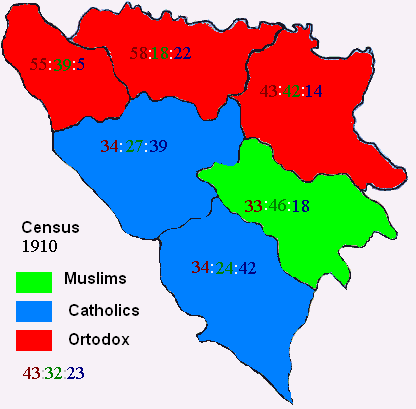 Ethnic majority in six Bosnia and Herzegovina districts during Austro-Hungarian rule.